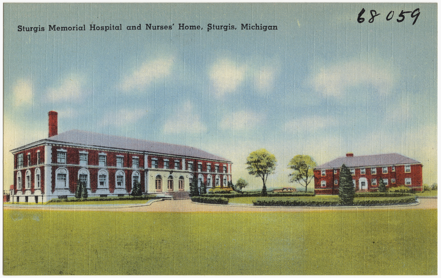 File name: 06_10_014933 Title: Sturgis Memorial Hospital and Nurses' Home, Sturgis, Michigan Date issued: 1930 - 1945 (approximate) Physical description: 1 print (postcard) : linen texture, color ; 3 1/2 x 5 1/2 in. Genre: Postcards Subject: Hospitals Notes: Title from item. Collection: The Tichnor Brothers Collection Location: Boston Public Library, Print Department Rights: No known restrictions